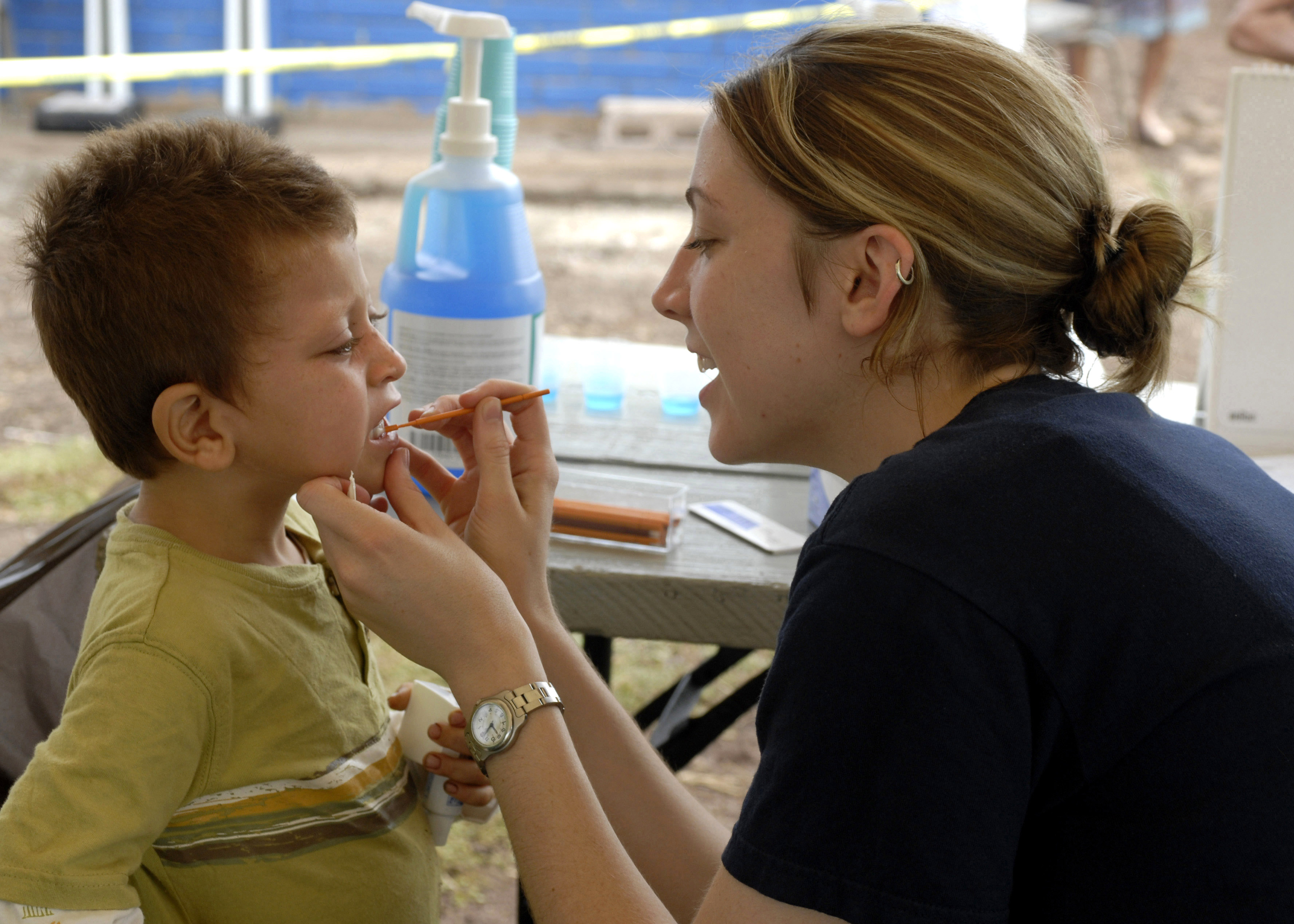 Project HOPE member Julie Whitis gives a Salvadoran boy a fluoride treatment at the Canton la Sunza school during Operation Continuing Promise 2008 community relations project, May 26, 2008. Whitis is deployed on the USS Boxer.